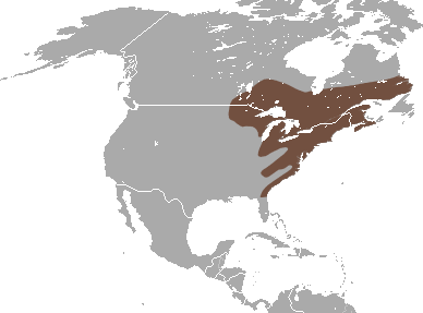 Star-nosed Mole (Condylura cristata) range